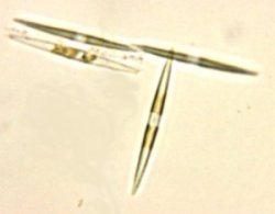 Pseudo-nitzschia multiseries strain "CCMP 2708" : diatoms viewed under a light microscope